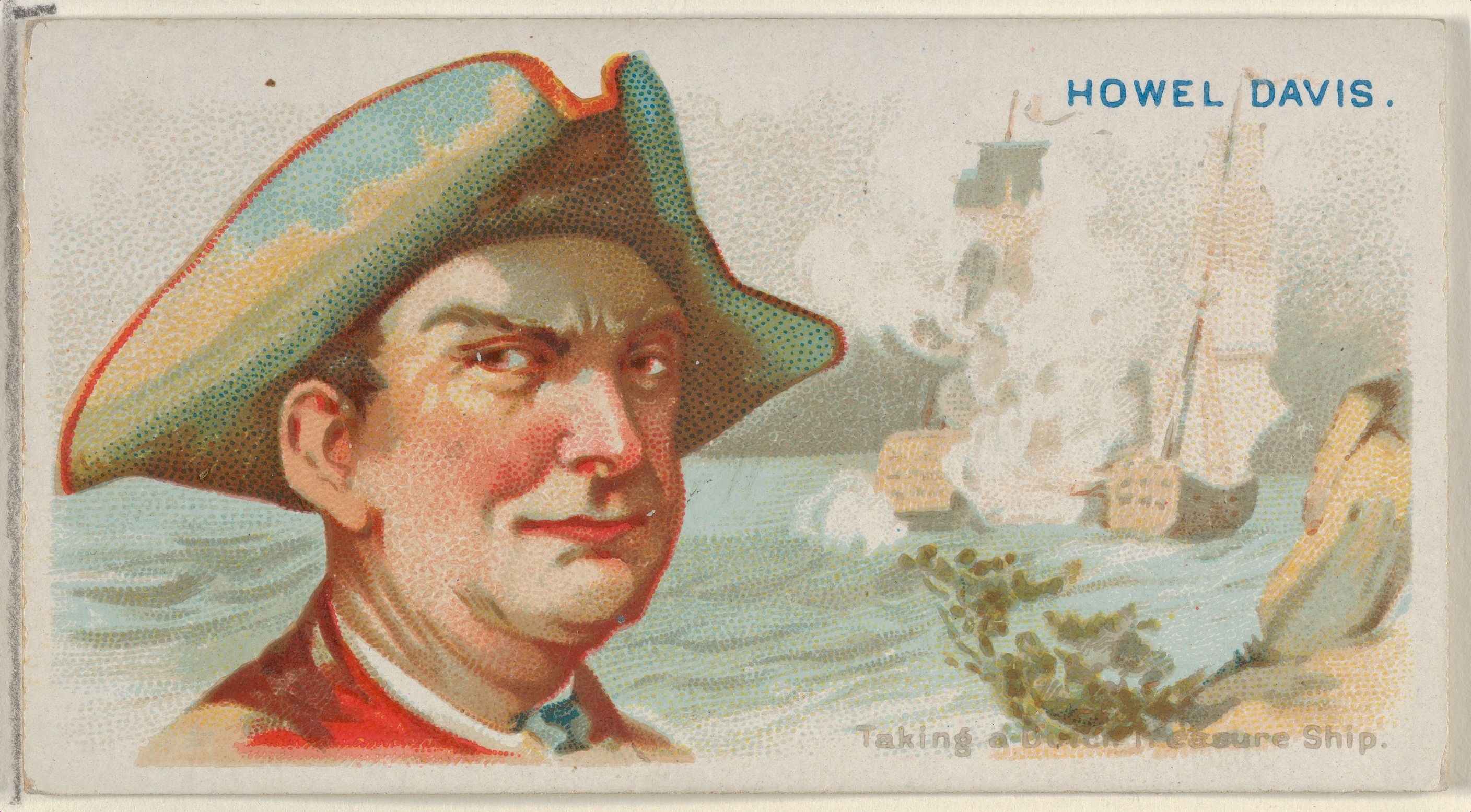 Print; Prints